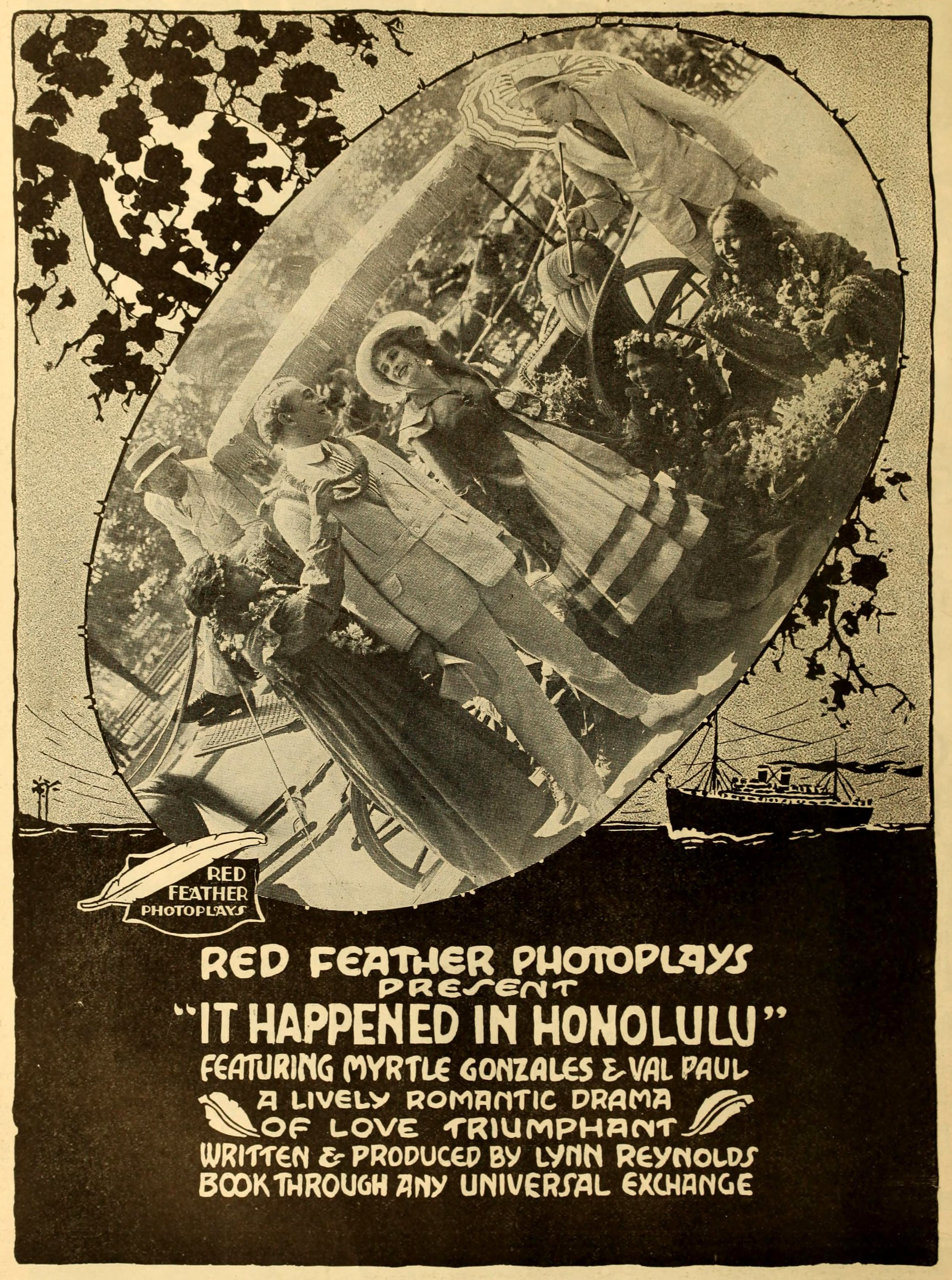 Advertisement in The Moving Picture World